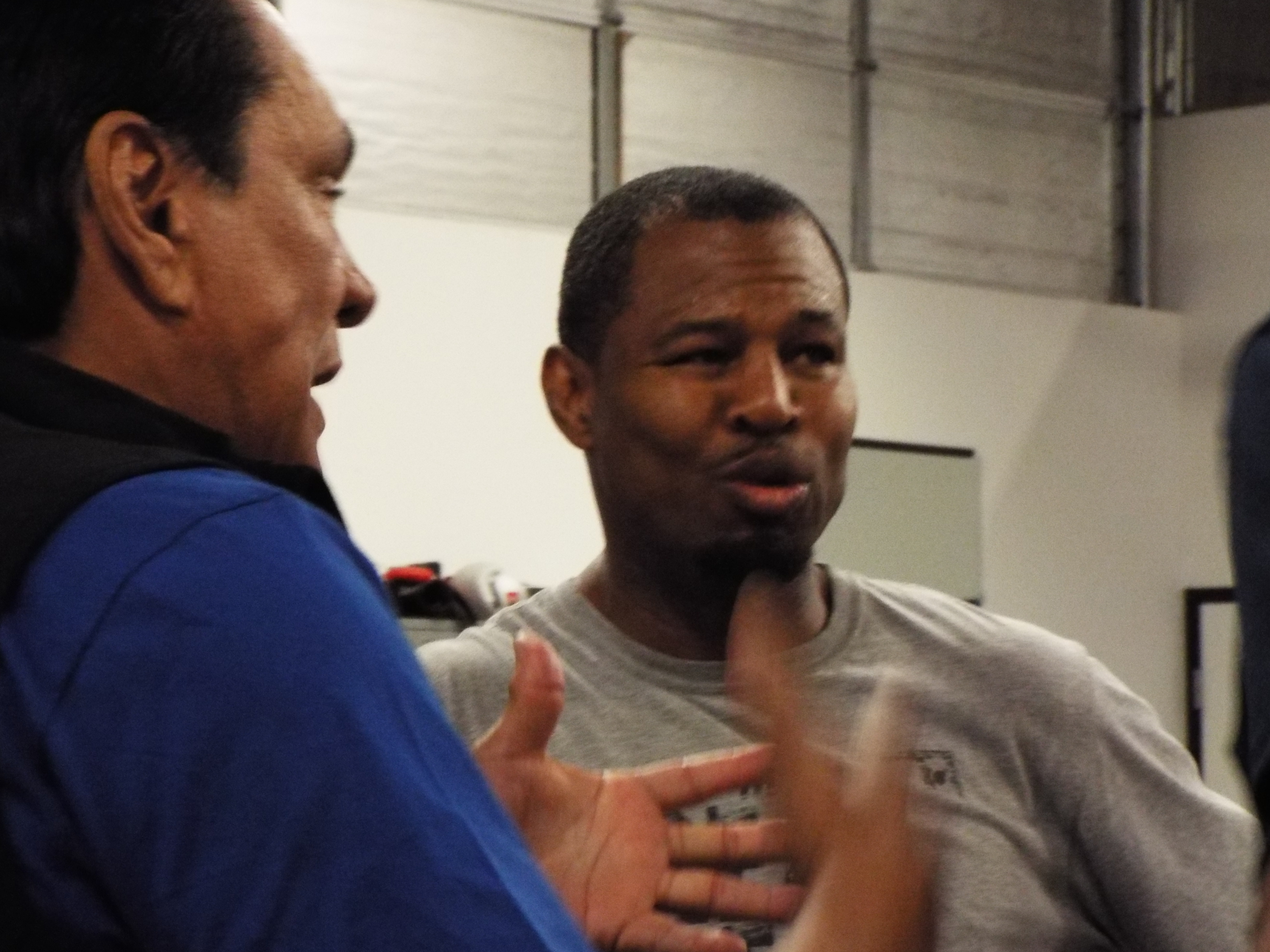 Shane Mosley (Sugar Shane Mosley) and his trainer Roberto (Hands of Stone) Duran while training for a fight.